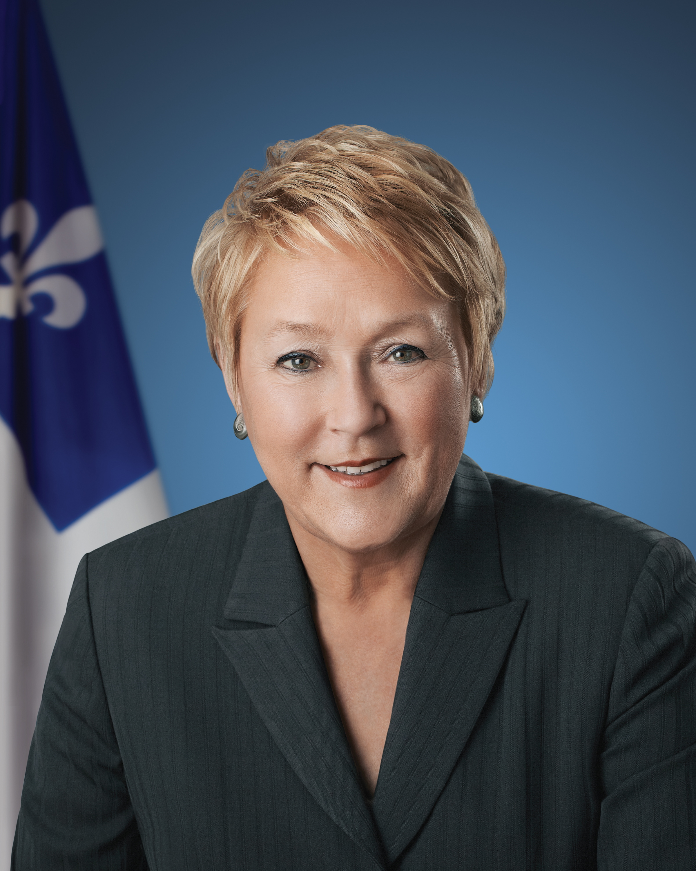 Offical photograph of former premier Pauline Marois